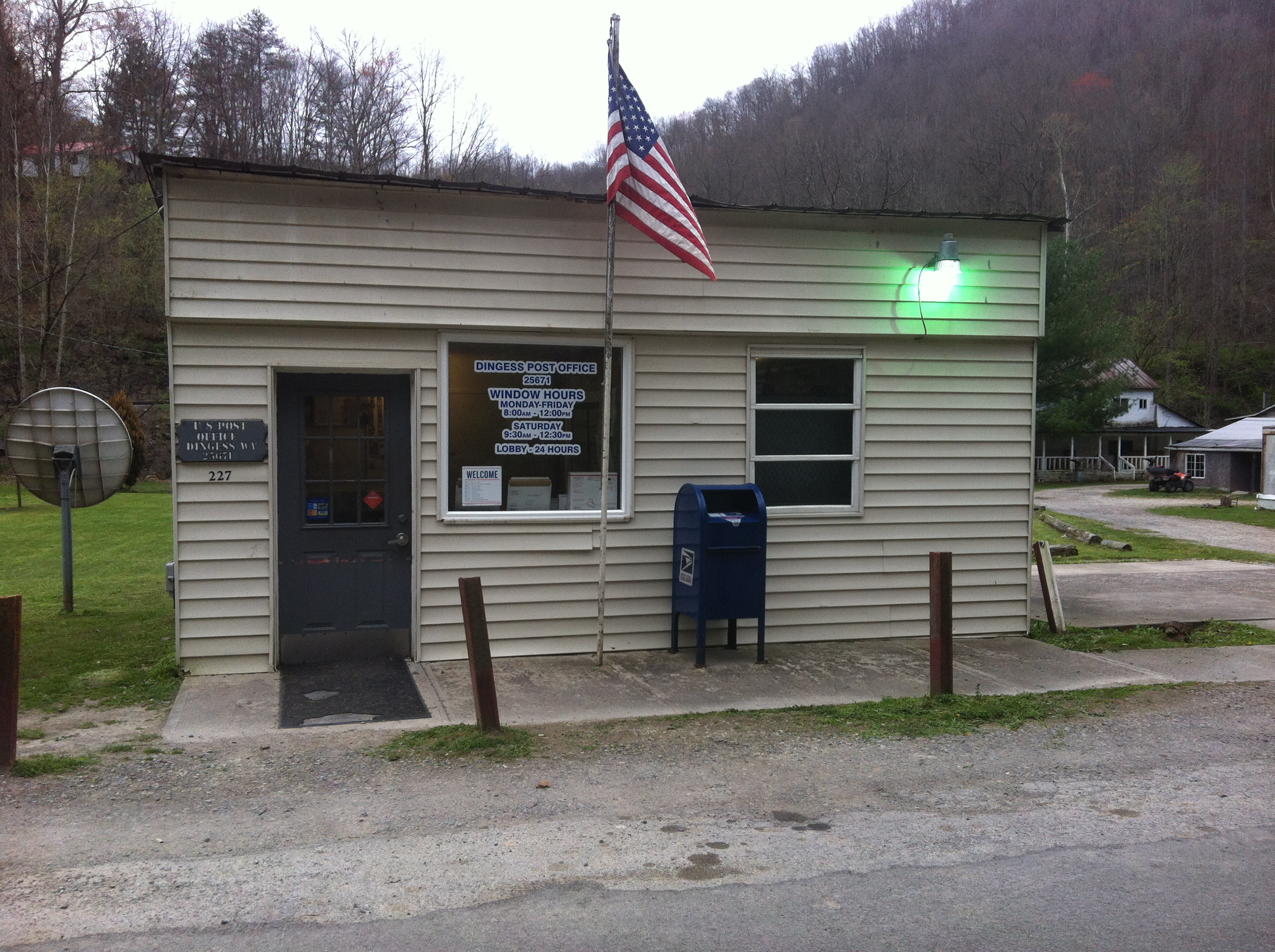 This is a photograph of the Dingess Post Office.